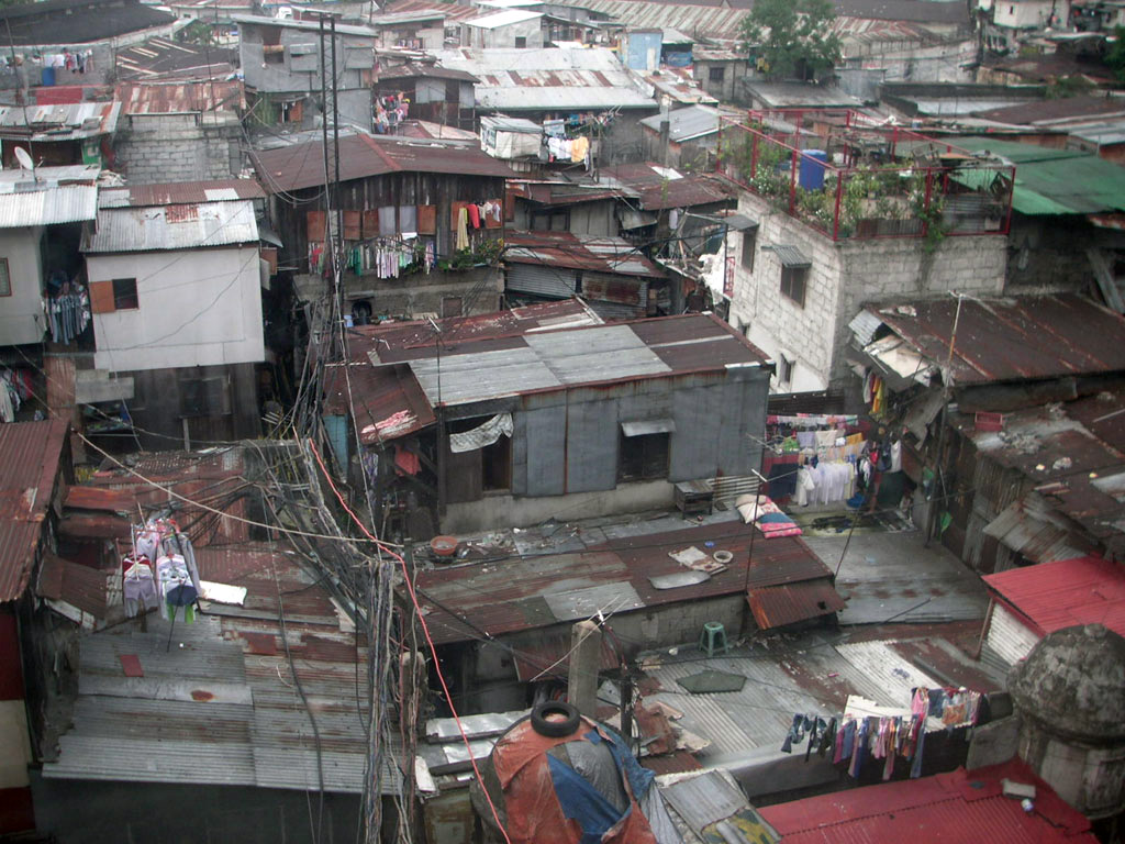 A shanty town in Manila, beside the Manila City Jail. This picture was taken from Recto LRT Station.